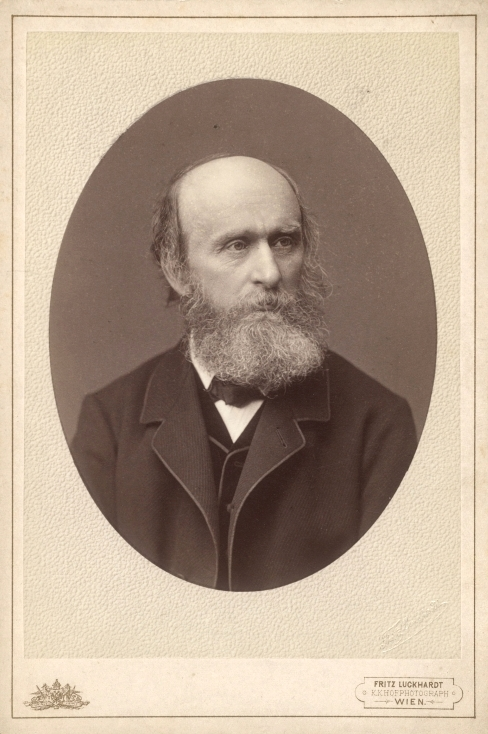 Rudolf Eitelberger (1817–1885), Austrian art historian and the first Ordinarius (full professor) for art history at the University of Vienna.